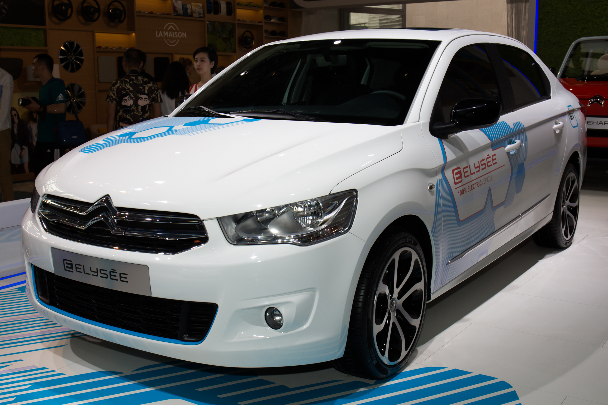 Auto China 2016: Citroën E-Elysée